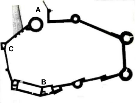 Plan of Hadleigh Castle, 1863